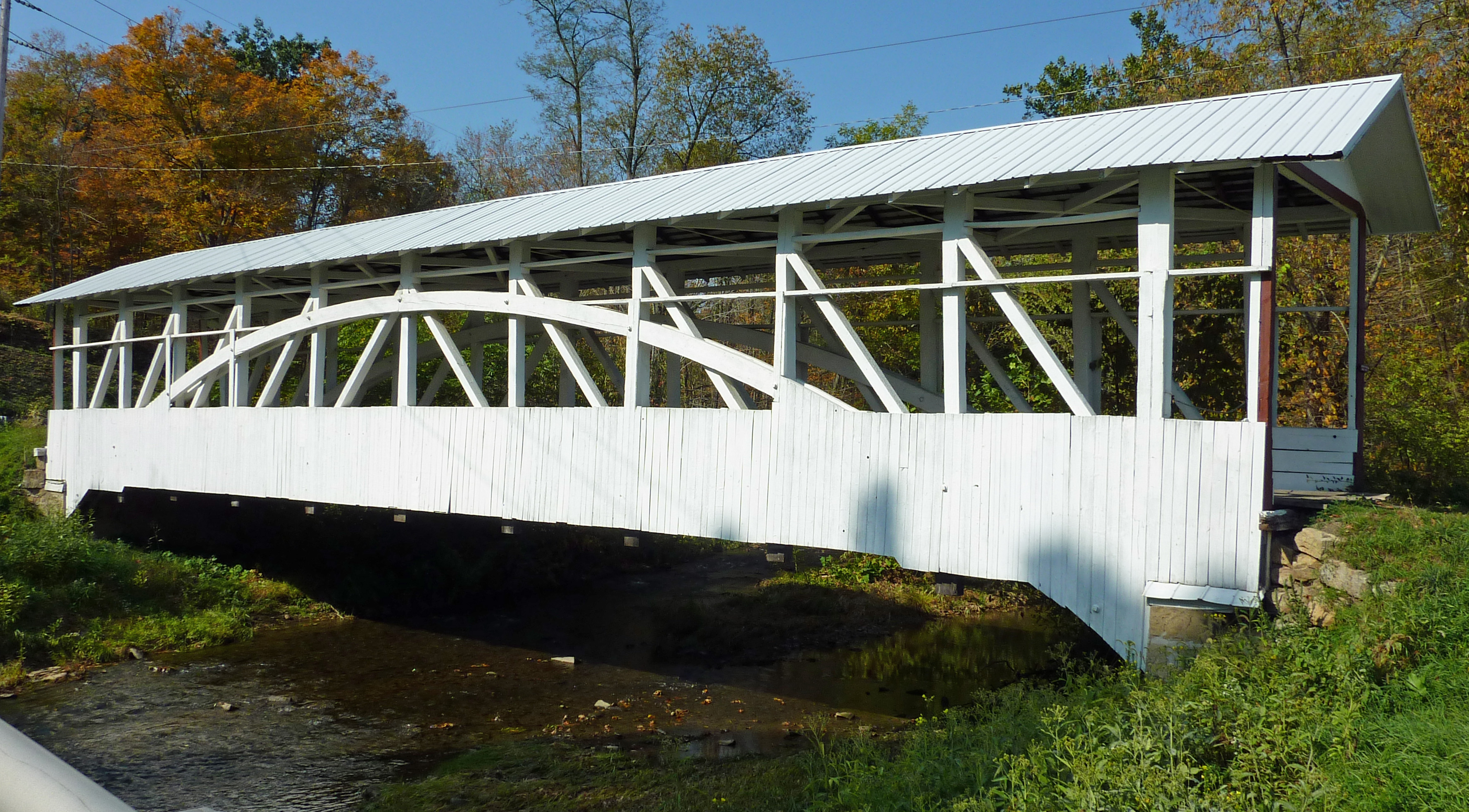 Osterburg Covered Bridge or Bowser Covered Bridge, built in 1890 over Bobs Creek in at East St. Clair Township, Bedford County, Pennsylvania, USA. Original text from Flickr: During a family visit back to western PA in October 2010 we hopped in my sister's car and checked out some quaint covered bridges - I think all of them are in Bedford County (but let me know if I'm wrong). The bridges are still in good shape but several are no longer in use# It was a fun day checking these out since I had never seen any of them before. Confirmation of ID from p. 22 of "Pennsylvania's Covered Bridges" 2nd ed. by Benjamin D. Evans and June R. Evans